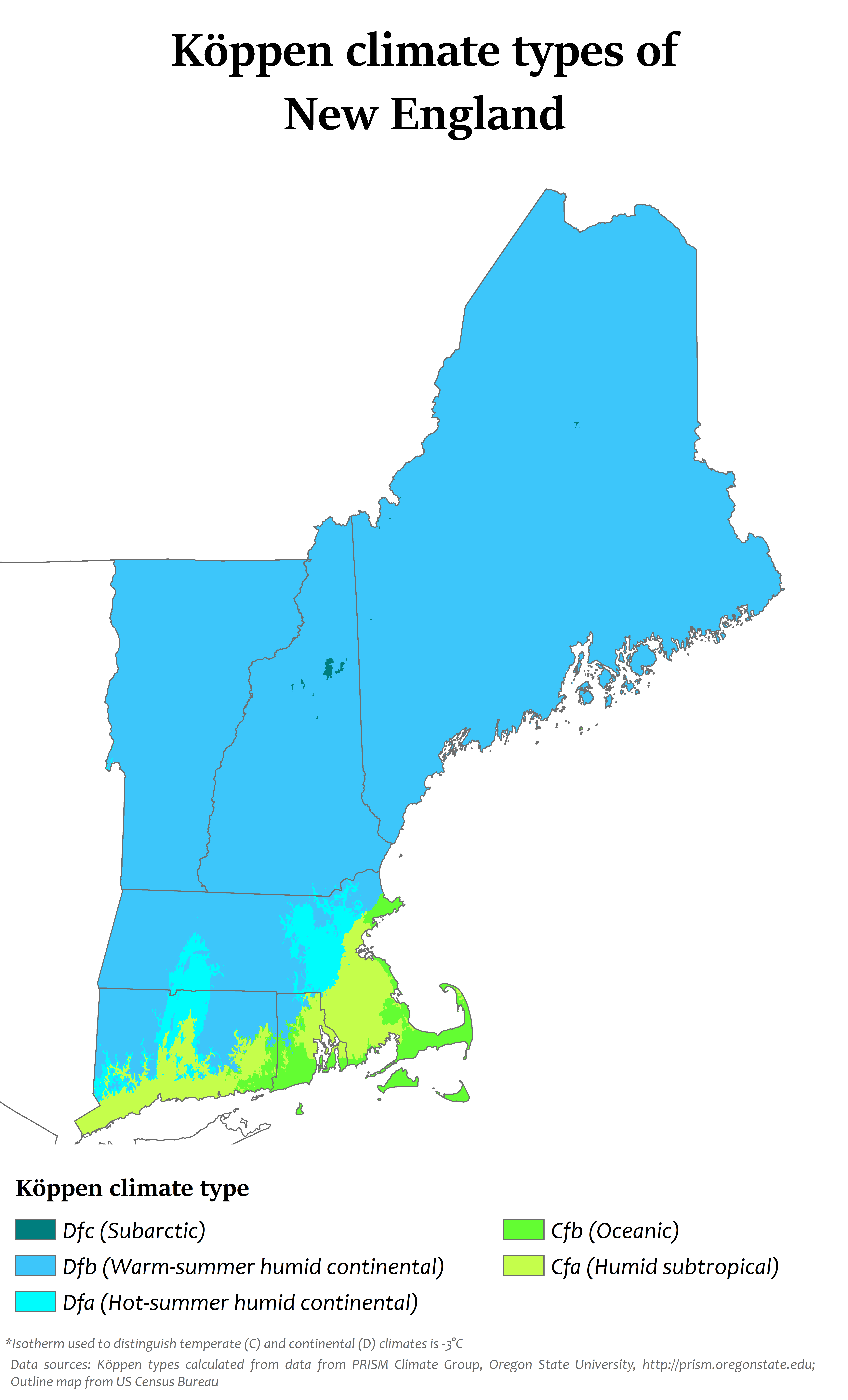 Köppen climate types in New England